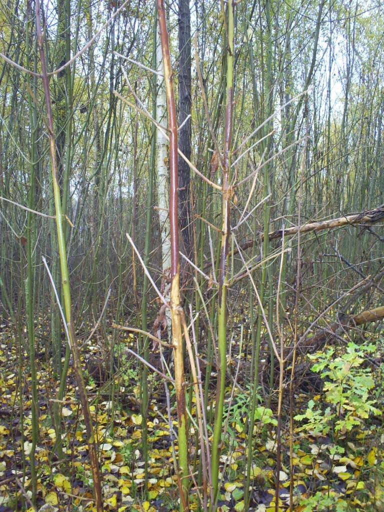 Pathological form of twigs of Fraxinus excelsior comes from Chalara fraxinea (nearly five year old trees).